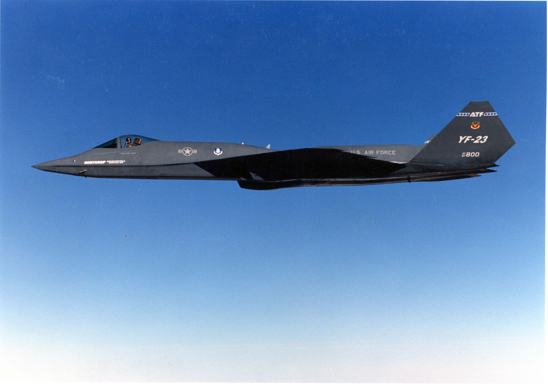 Northrop-McDonnell Douglas YF-23 in flight. (U.S. Air Force photo)